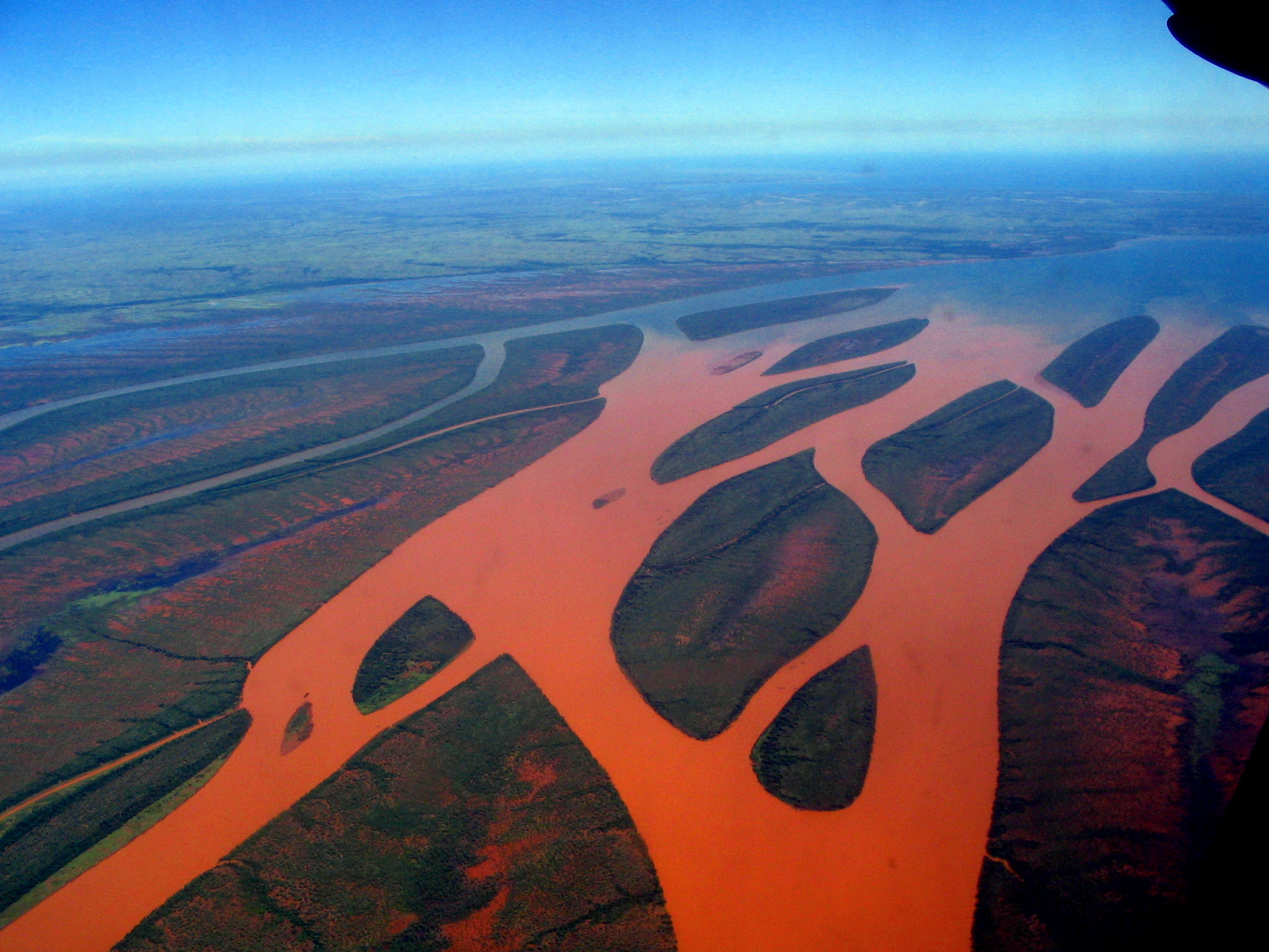 View on the Betsiboka river and Bombetoka bay